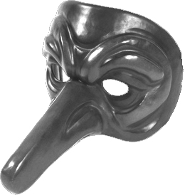 Commedia dell'arte mask